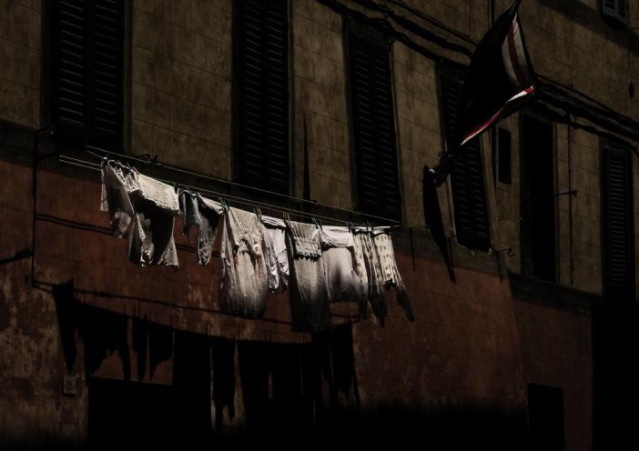 Clothes-line